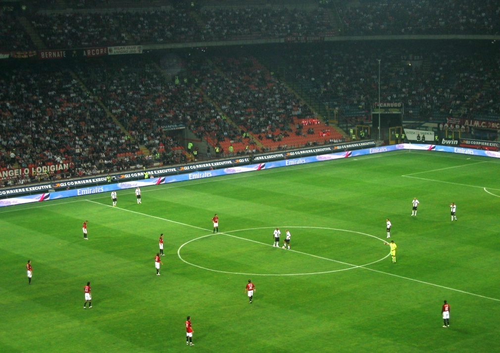 A.C. Milan v Parma F.C. (22 September 2007)